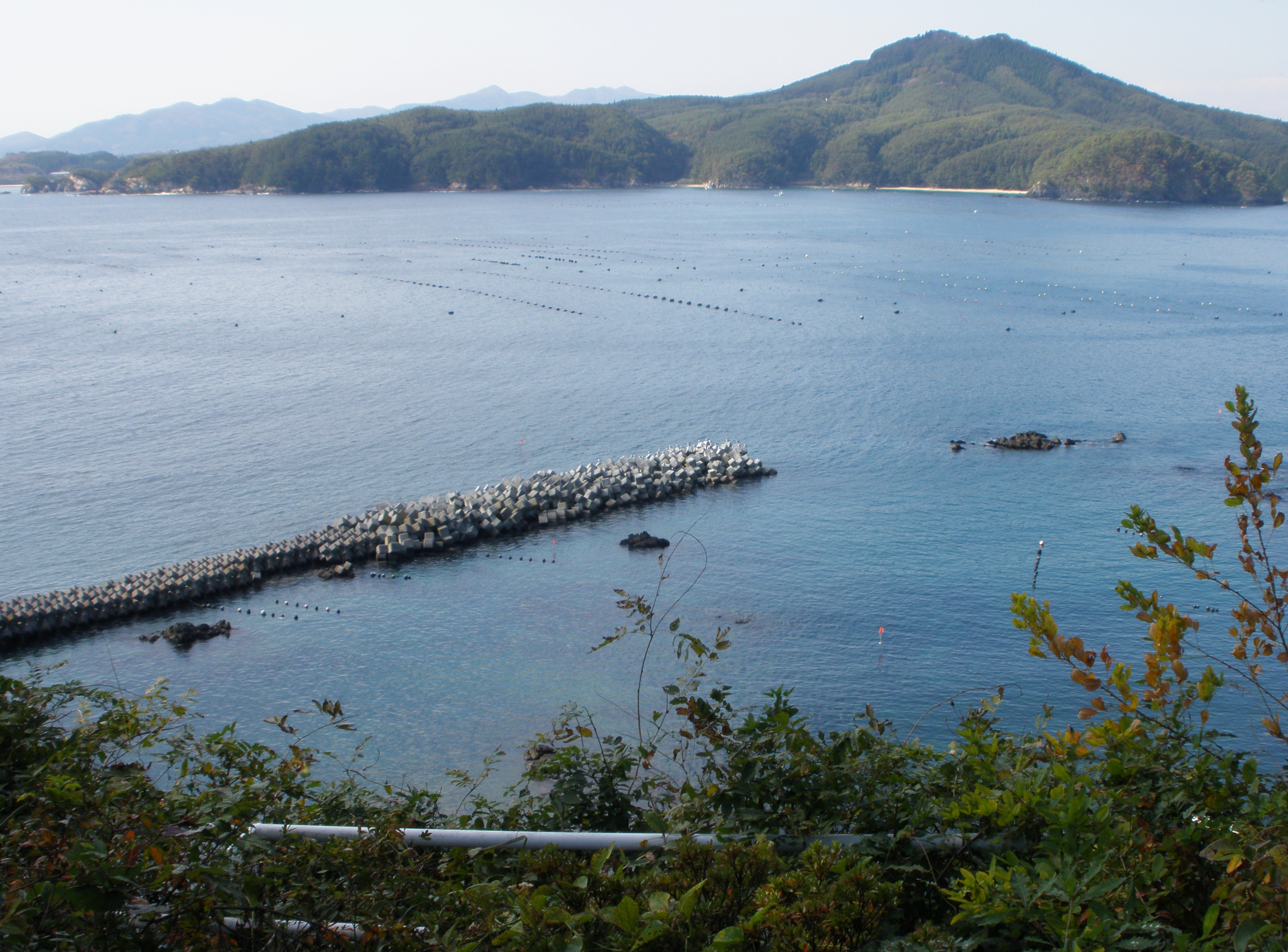 O-shima island seen from the Karakuwa Peninsula in Kesennuma City, Miyagi Prefecture, Japan, looking westward. Mount Kame (Kame-yama) on the right.